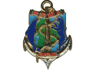 Badge of Military Service Regiment Adapted from French Guiana (France).